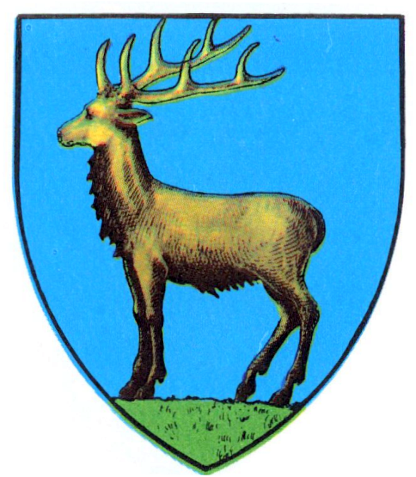 Interwar coat of arms of Gorj County, Kingdom of Romania.